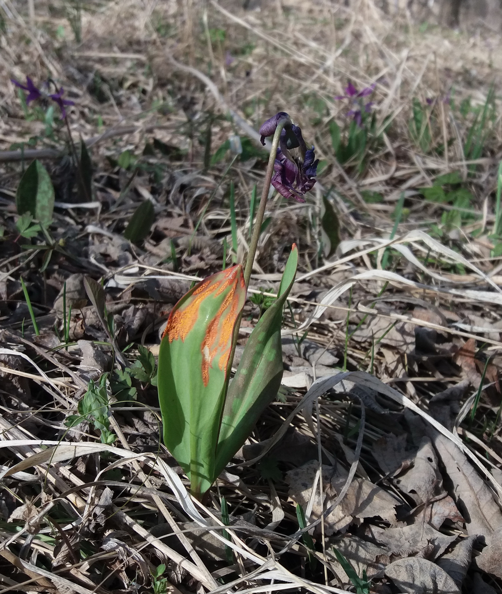 Uromyces erythronii on Erythronium dens-canis seen in Шебалинский р-н, Респ. Алтай, Россия (Altaï, Siberia, Russia)